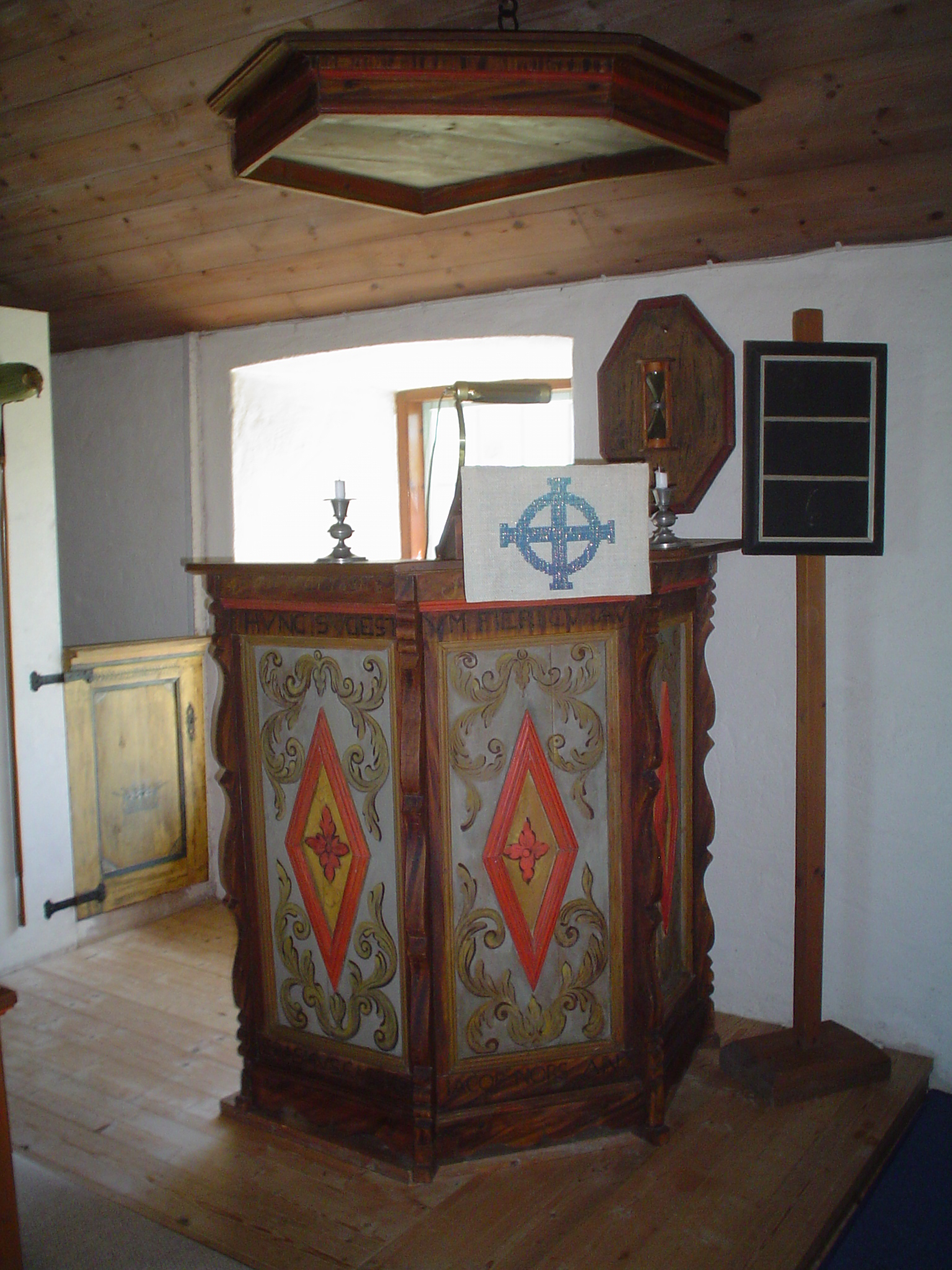 Pulpit of Hallshuk fisherman chapel